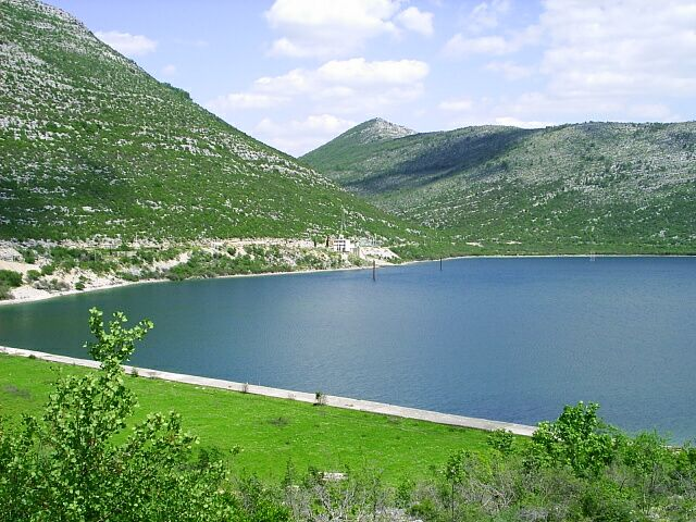 An artifical lake on the Trebišnjica River, BiH